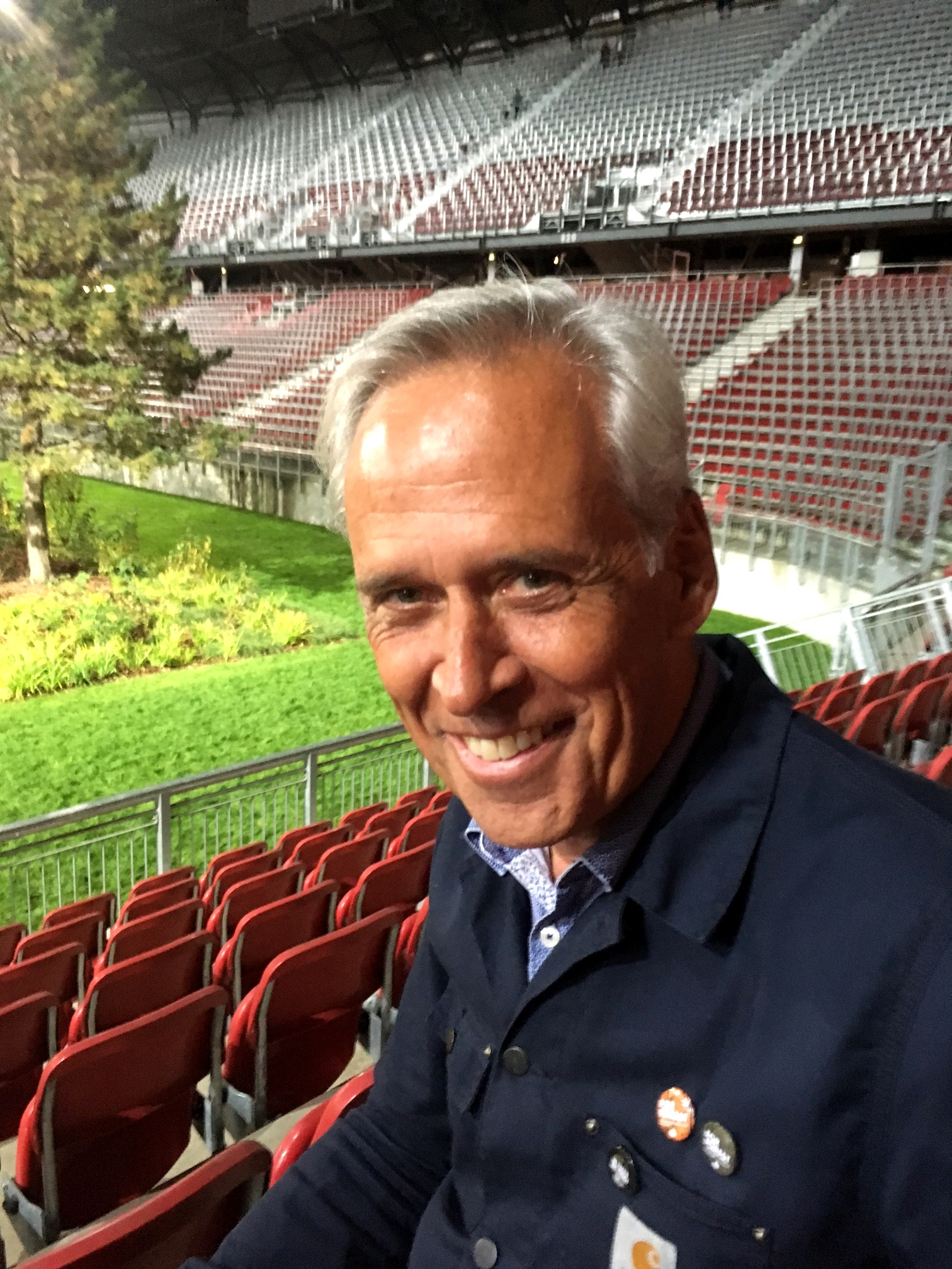 Klaus Littmann realised For Forest in Klagenfurt, Carinthia, Austria, European Union